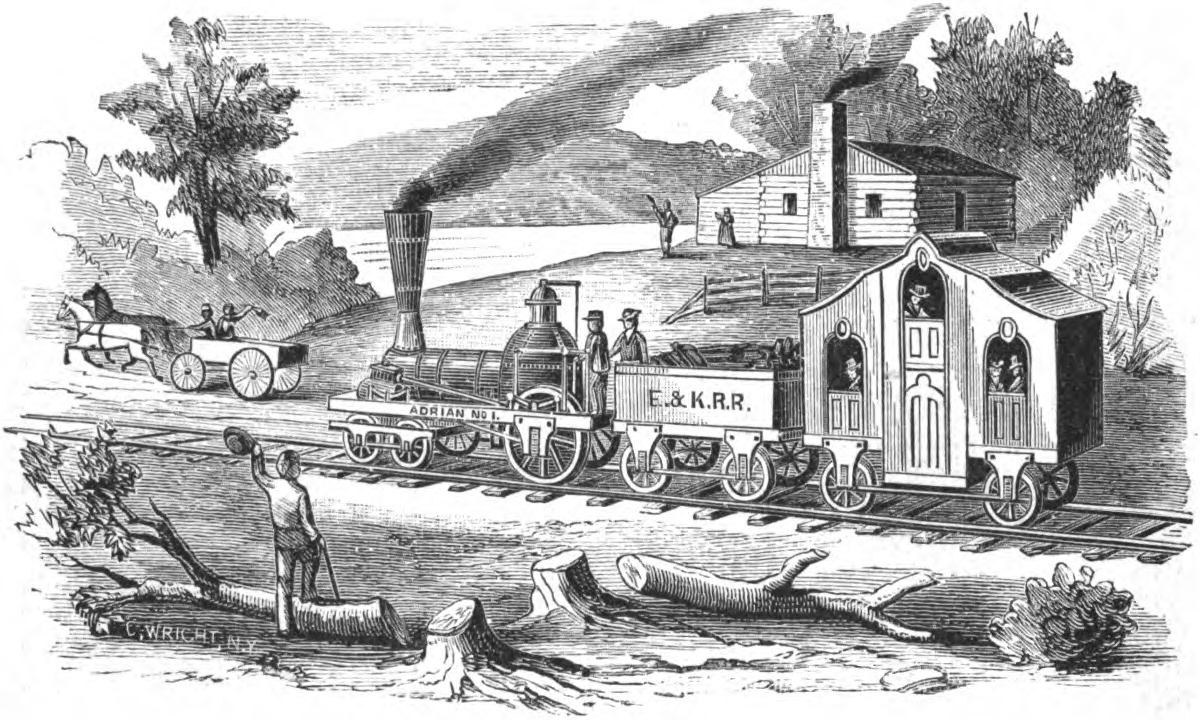 Depiction of the Erie and Kalamazoo Railroad's first locomotive pulling a car in 1837.